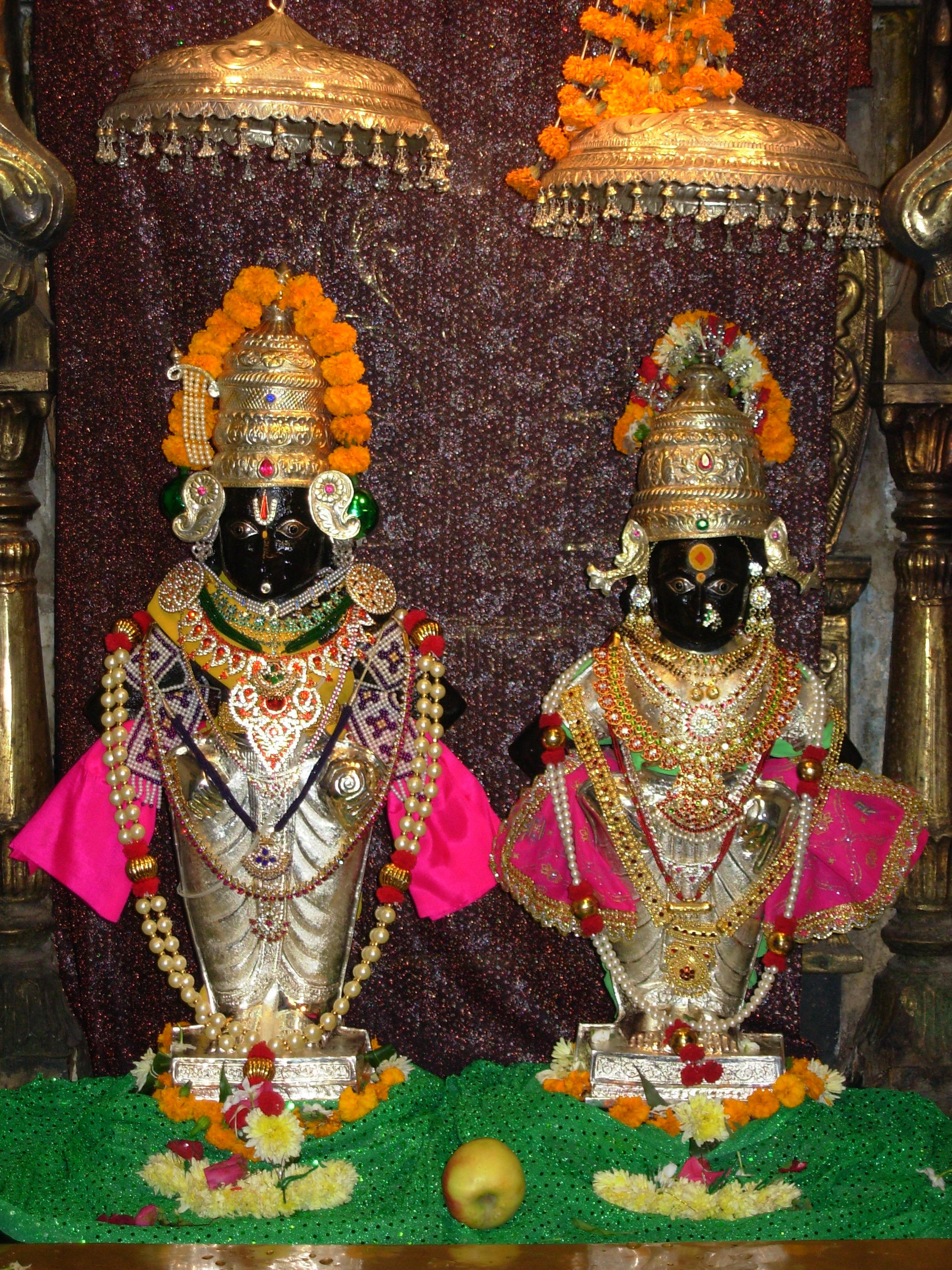 The Vithoba and Rakhumai images at the Sion Vitthal Mandir, Mumbai during the Hindu festival of Diwali days.